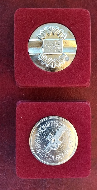 The sign of the municipality of Rakovski, 1982